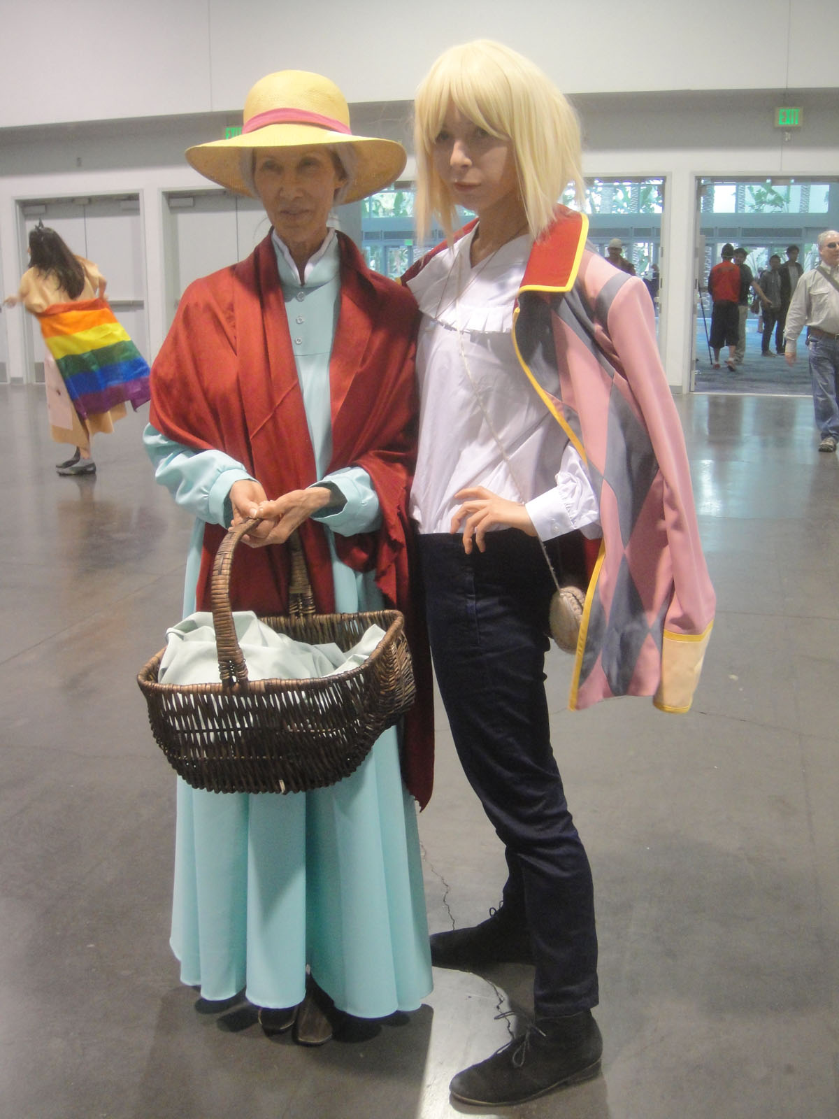 AM2 Con 2012 cosplay